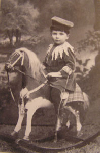 General Stefan Rowecki (1895-1943) - polish commander, officer of Polish Army, leader of the Home Army, as a four-year-old in Piotrków